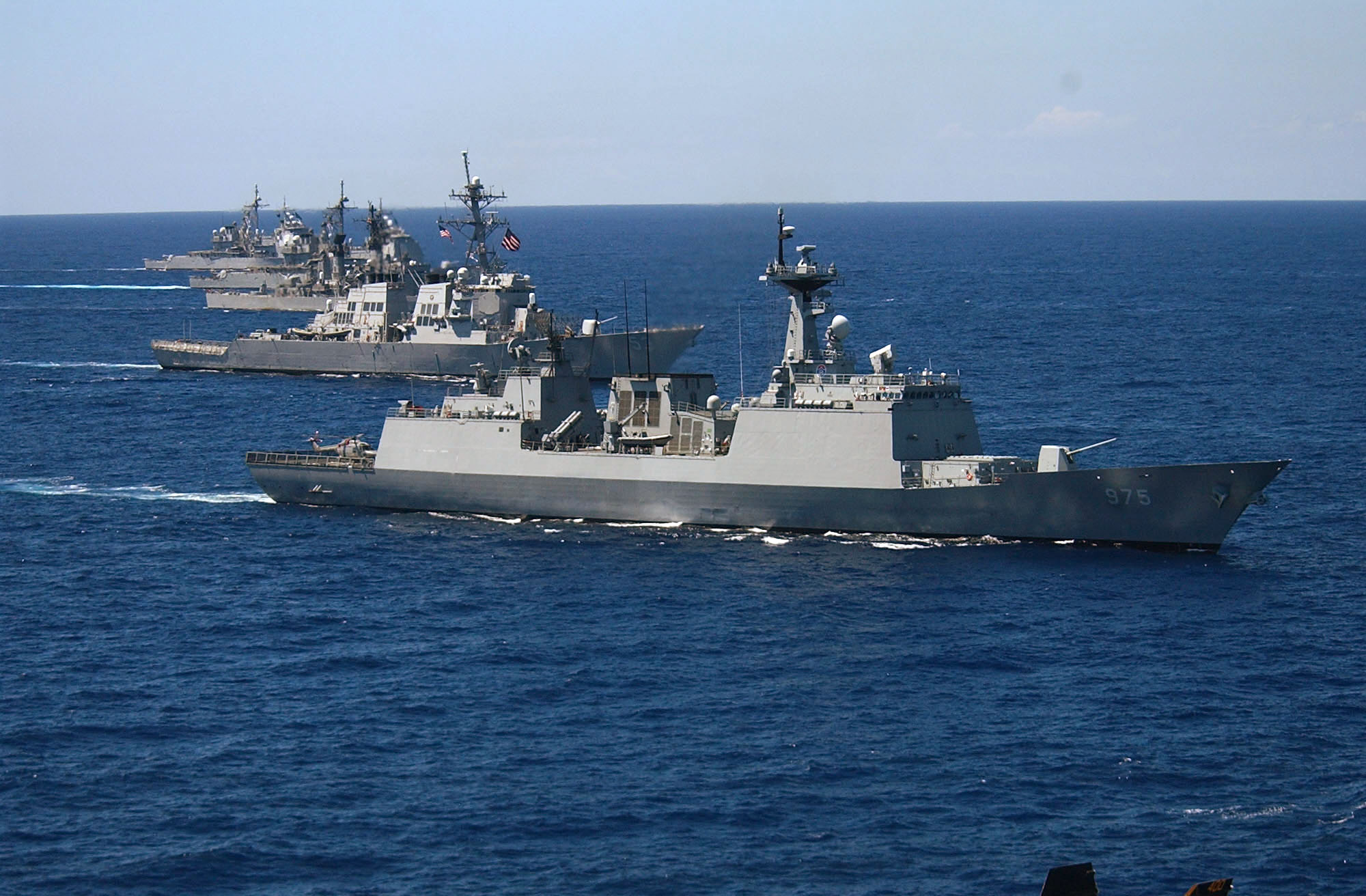 Pacific Ocean (July 22, 2004) - Pictured foreground-to-background The Republic of South Korea (KOR), KDX-2 Class: Frigate Chungmugong Yi Sun-sin (DDH-975); the US Navy (USN) Arleigh Burke Cass (Flight I) Guided Missile Destroyer (Aegis), USS JOHN PAUL JONES (DDG 53), the other three ships are obstructed from view. Ships from seven different nations steam alongside USS John C. Stennis (CVN 74) while conducting a multi-national task force group photo exercise marking the conclusion of Rim of the Pacific (RIMPAC) 2004. The ship and Carrier Air Wing Fourteen (CVW-14) are taking part in RIMPAC 2004. RIMPAC is the largest international maritime exercise in the waters around the Hawaiian Islands. This year's exercise included seven participating nations; Australia, Canada, Chile, Japan, South Korea, United Kingdom and United States. RIMPAC is intended to enhance the tactical proficiency of participating units in a wide array of combined operations at sea, while enhancing stability in the Pacific Rim region.